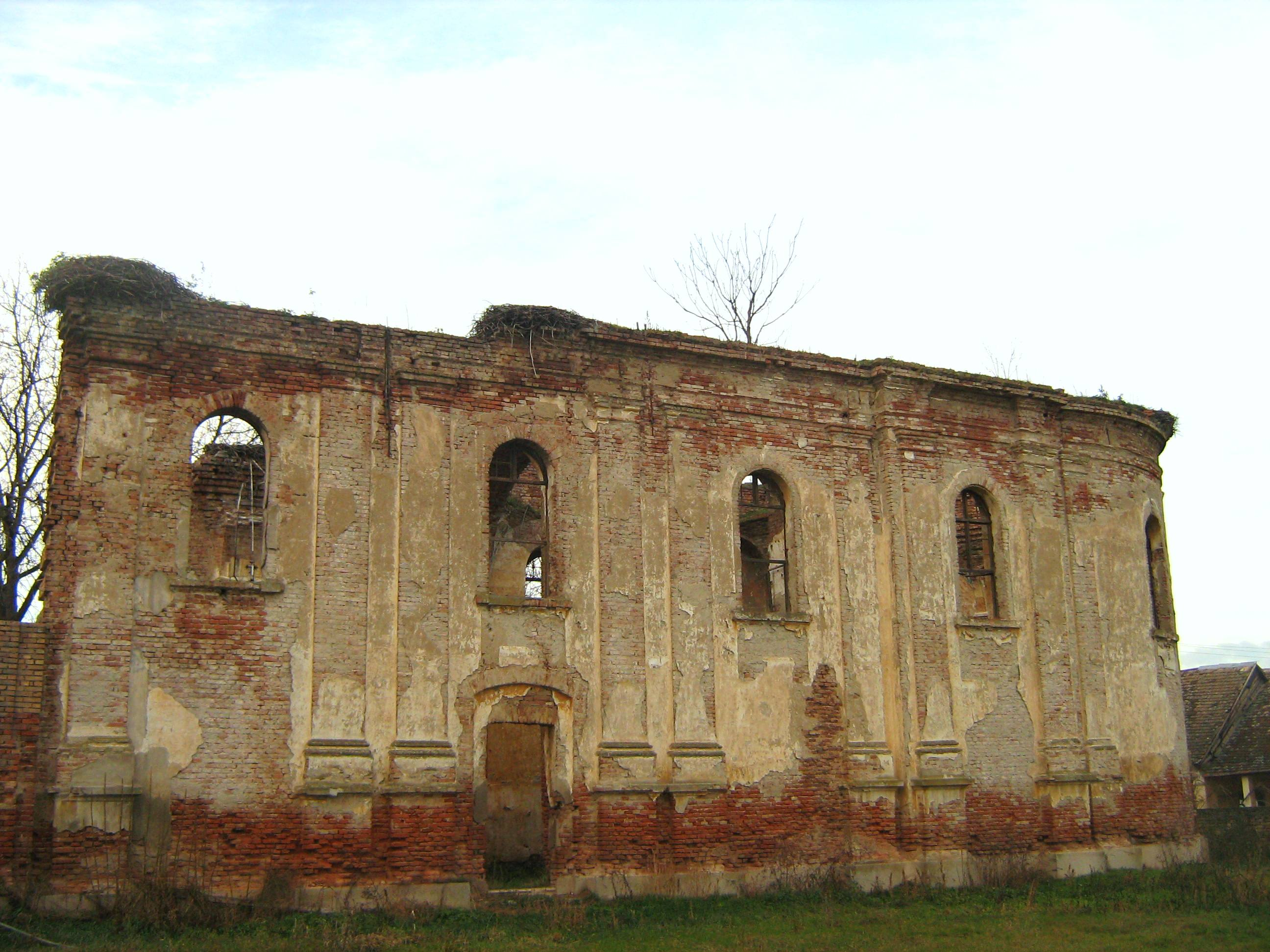 Ruin of the Serbian Orthodox Church of Holy Spirit, Kupinovo, Serbia